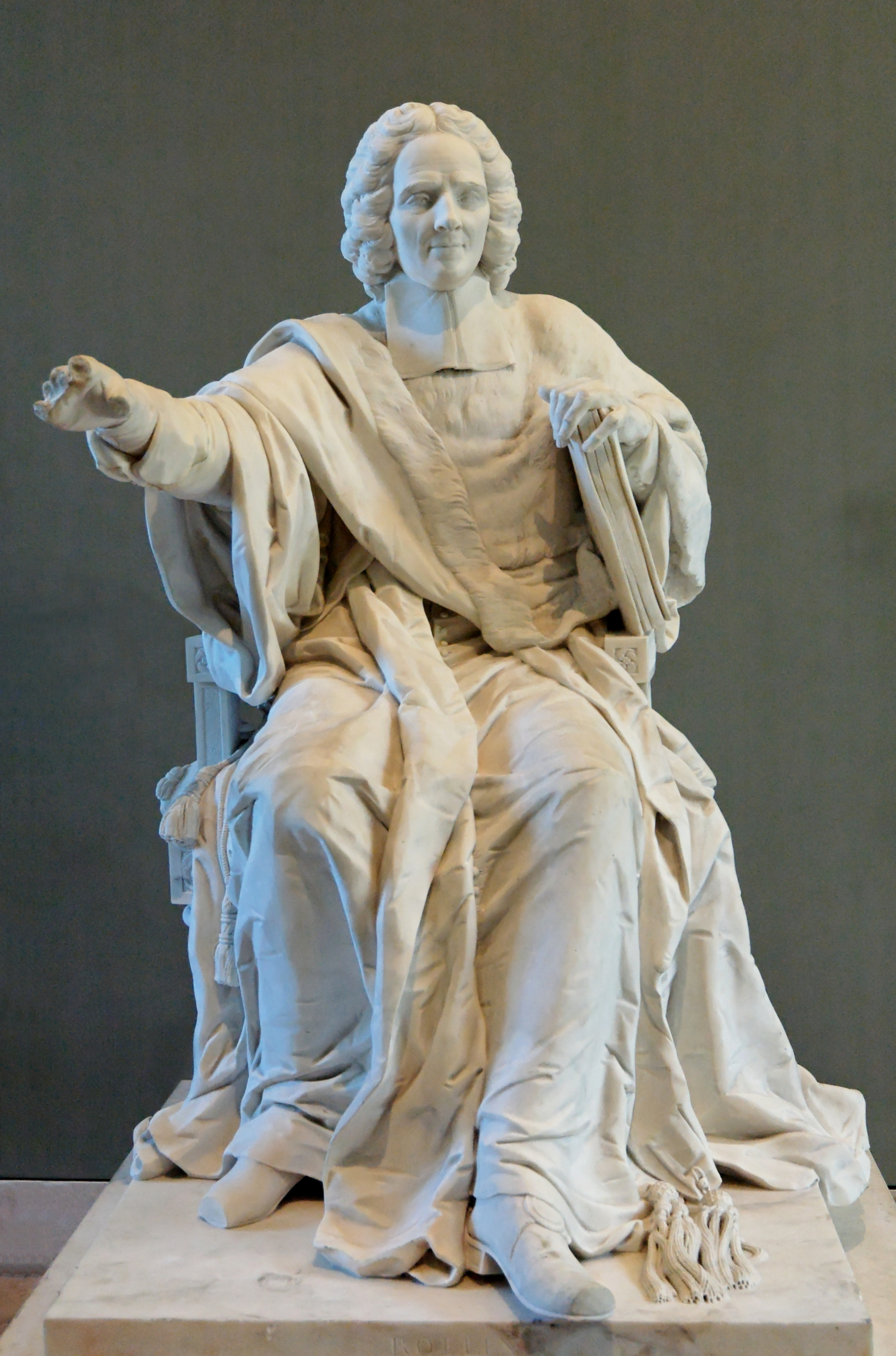 Portrait of French philologist Charles Rollin (1661–1741). Marble, exhibited at the Salon of 1789.